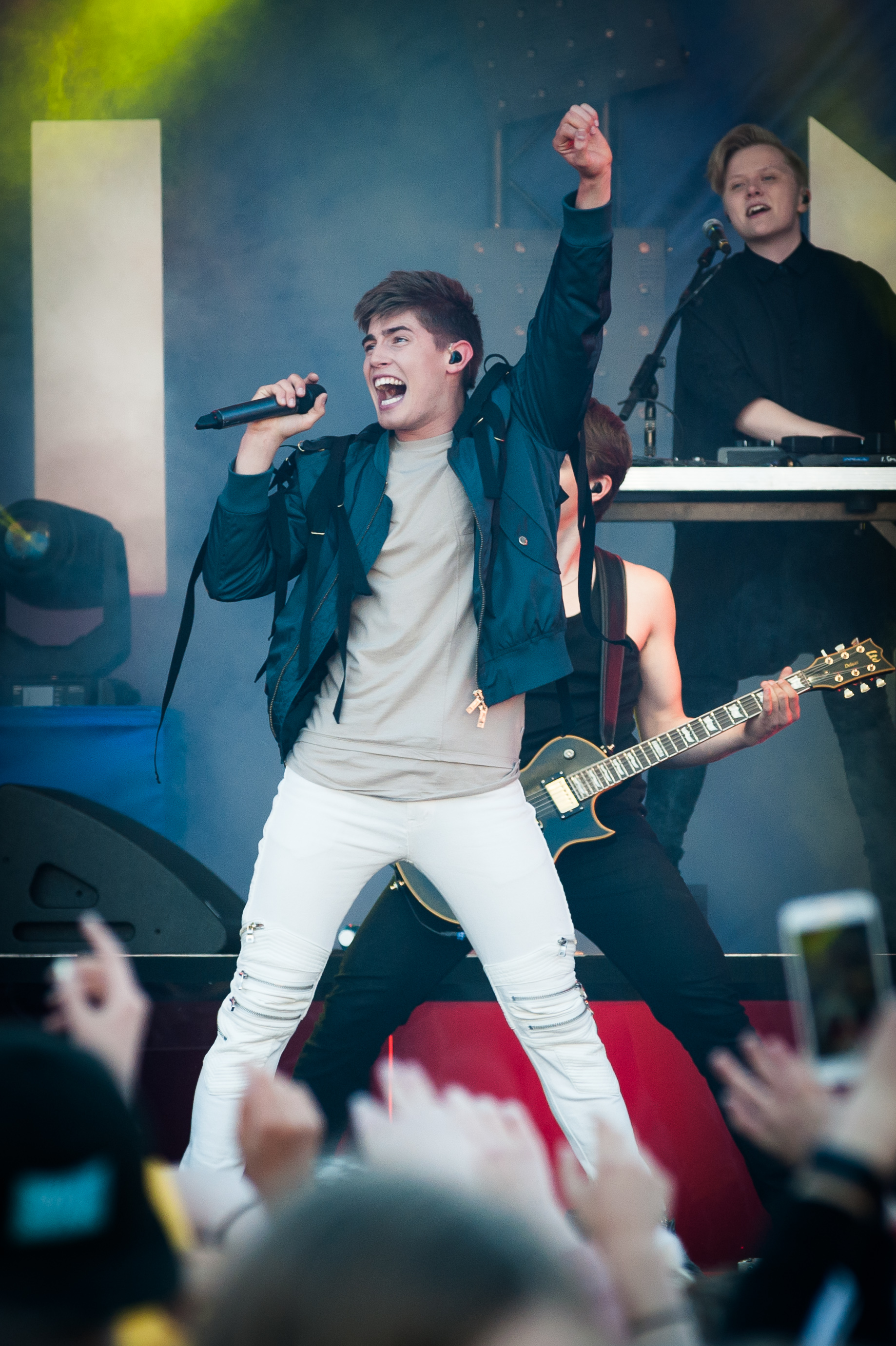 Finnish pop singer Robin performing at the 2017 YleX Pop festival in Lahti, Finland.